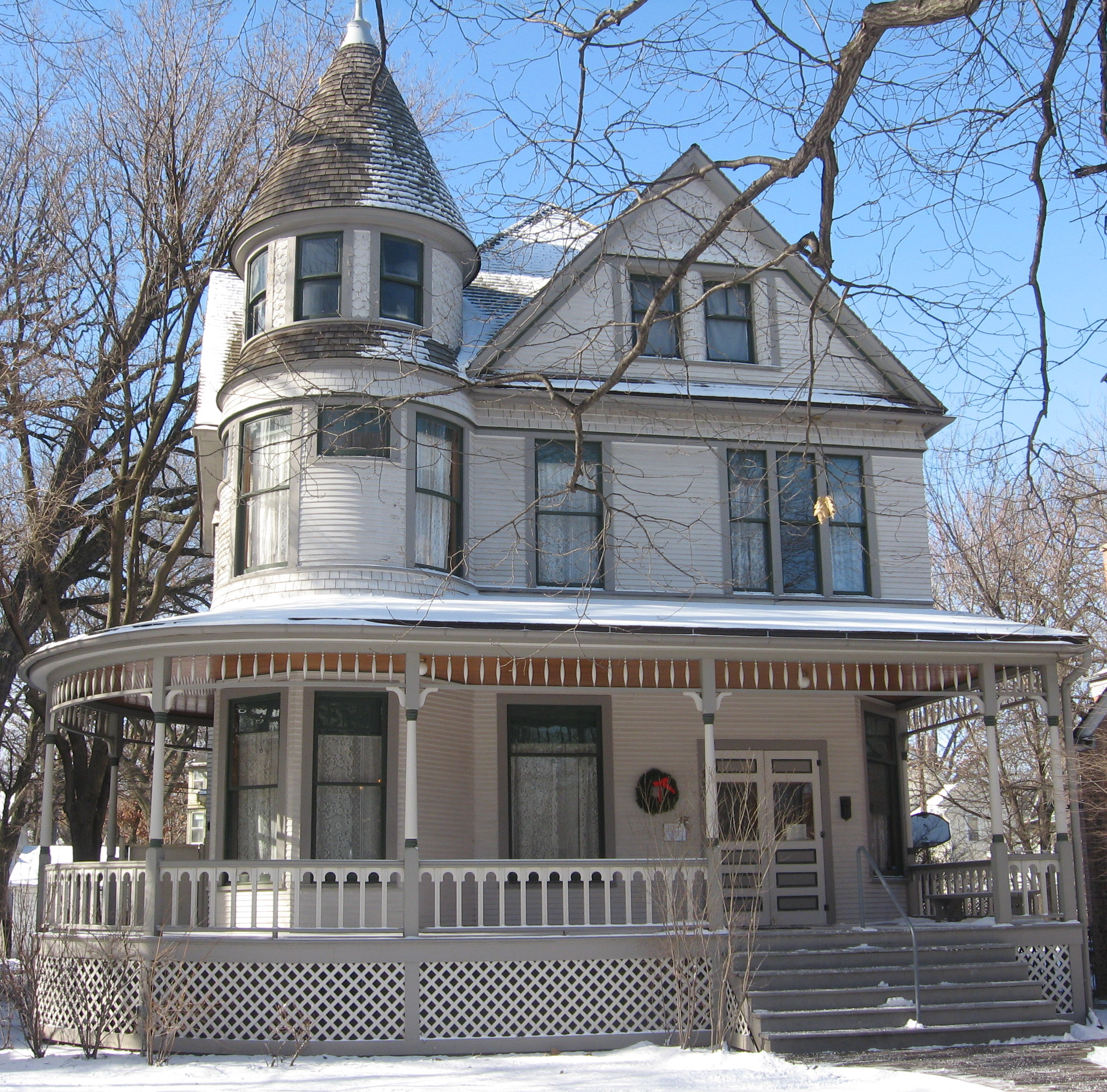 The birthplace of Ernest Hemingway in Oak Park, Chicago, Illinois, USA.